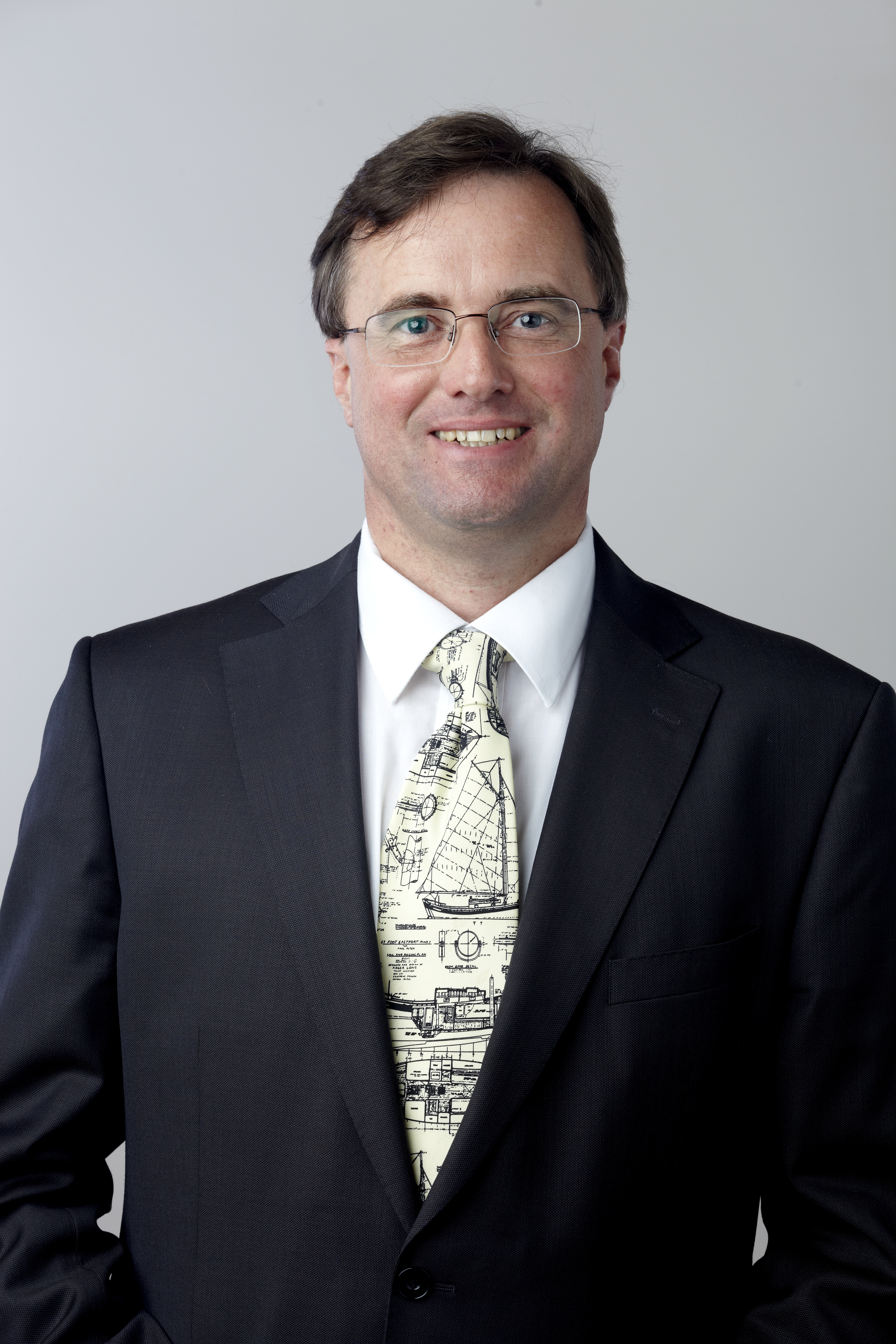 Professor Timothy Leighton FREng FRS, Royal Society Fellow elected 2014 Attribution: The Royal Society